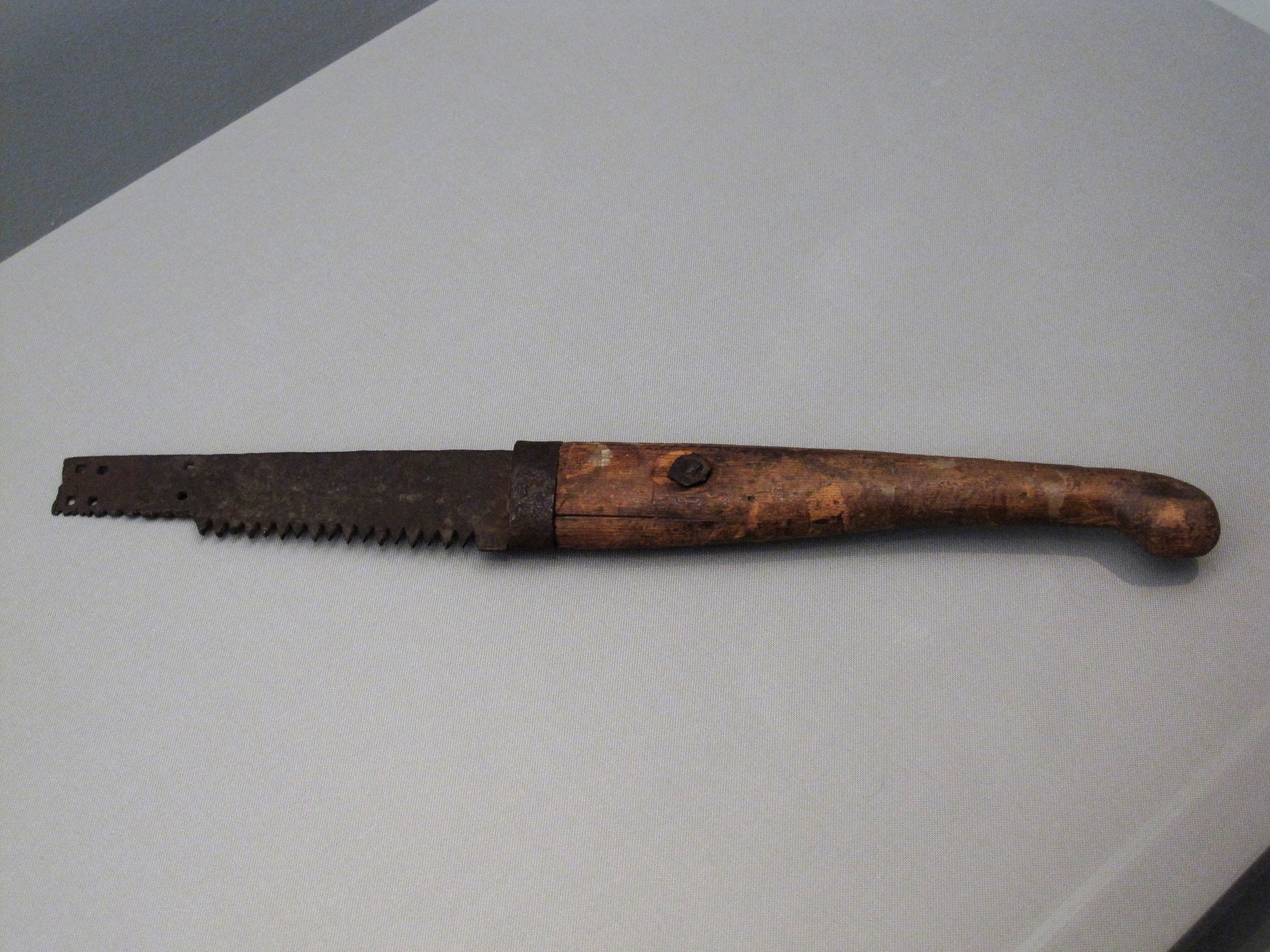 Saw made in Nara period (Important Cultural Property), from The Gallery of Horyuji Treasures at Tokyo National Museum.